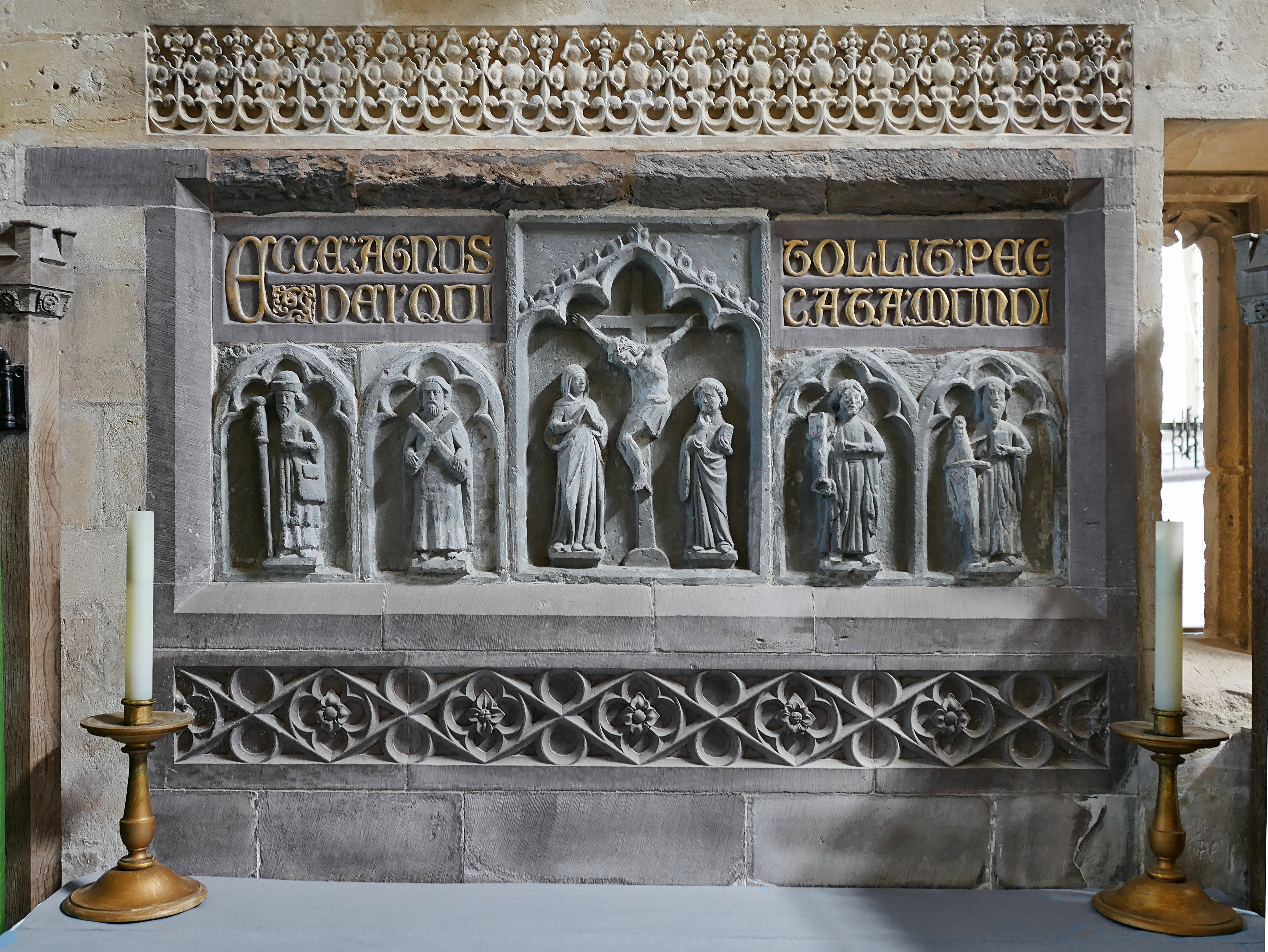 St David's Cathedral - Holy Trinity chapel, altar